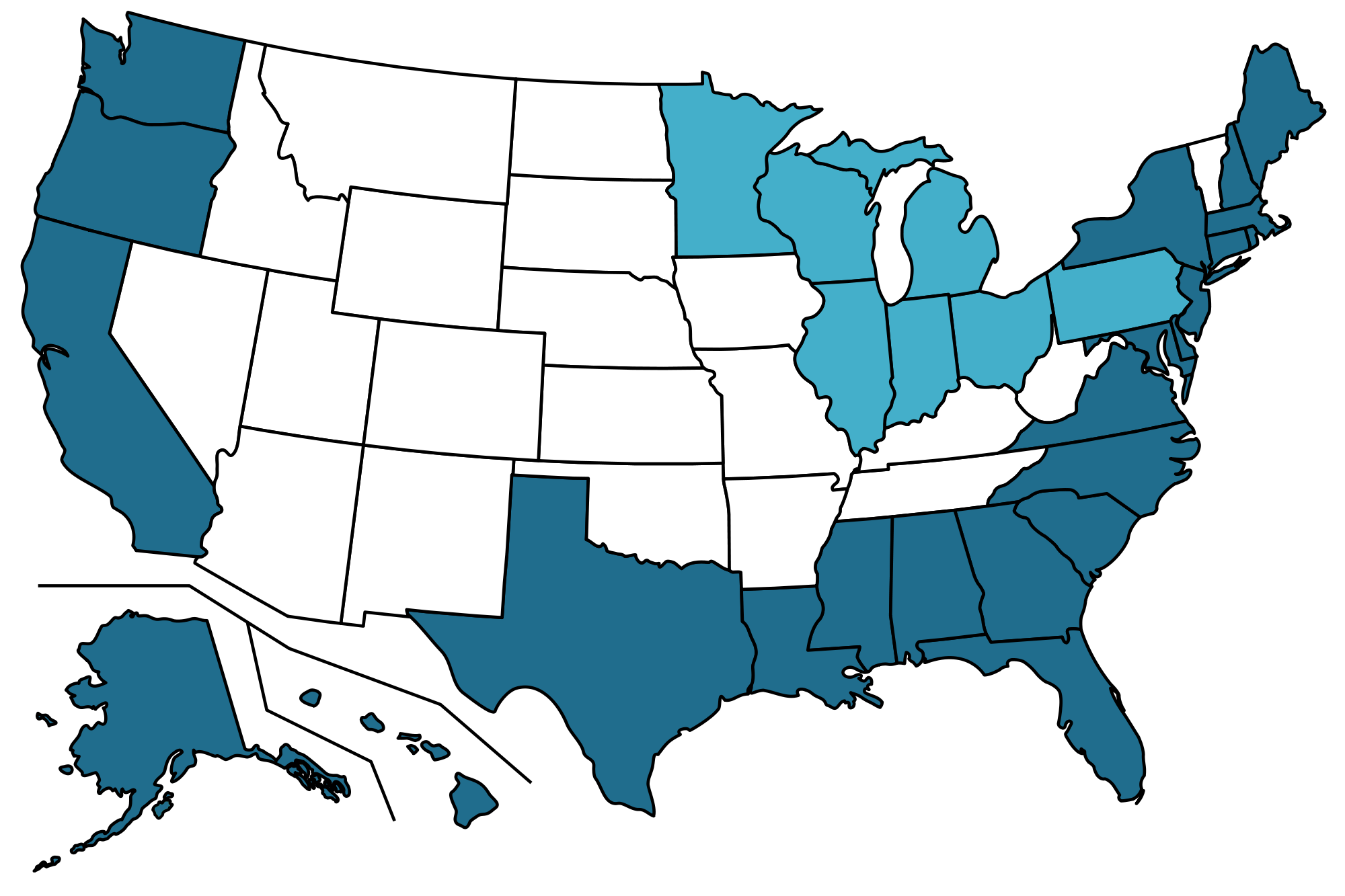 map of U.S. states having an ocean or freshwater coastline